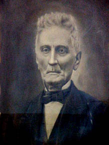 Moses H. Kirby (1798-1889), Ohio Secretary of State and Mason from Upper Sandusky, Ohio.